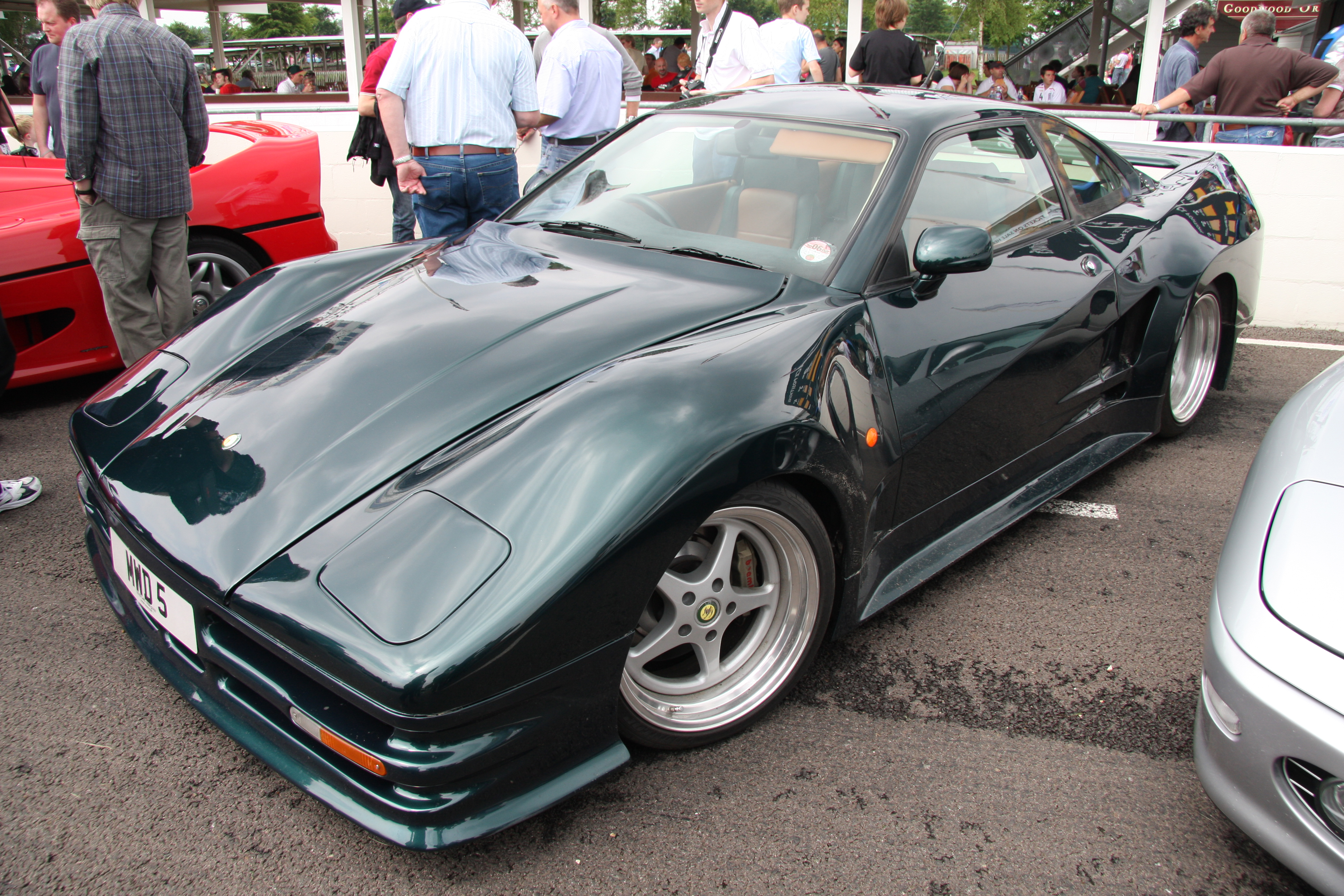 Green Lister Storm coupé at the Goodwood Breakfast Club (June 2008).